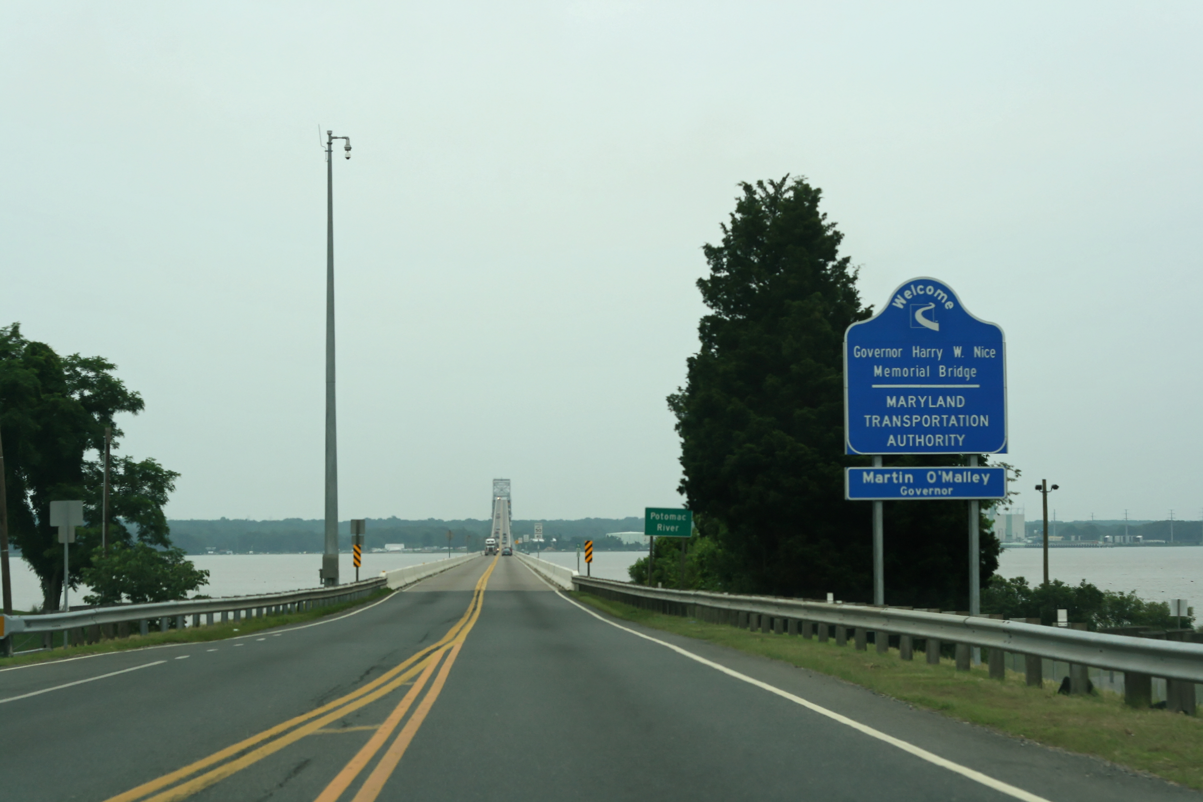 Shot prior to the Governor Harry W. Nice Memorial Bridge in King George County in Virginia. The bridge carries the designation of U.S. Route 301 and is overseen by the Maryland Transportation Authority. It is one of seven toll facilities in the state of Maryland. Tolls are only assessed for traffic coming southbound out of Maryland into Virginia.